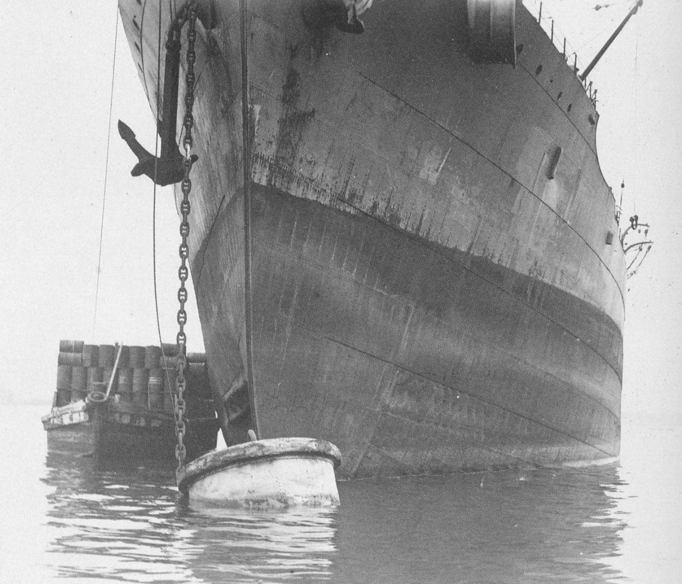 Japanese Oiler "Kazahaya" at Yokosuka naval port.